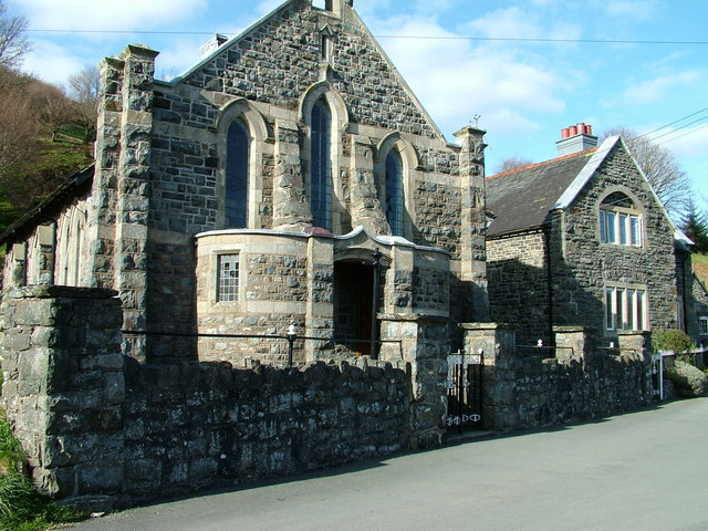 Ann Griffiths Memorial Chapel, Dolanog The chapel is dedicated to the Welsh hymn writer, Ann Griffiths.